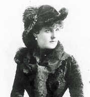 Blanche Roosevelt